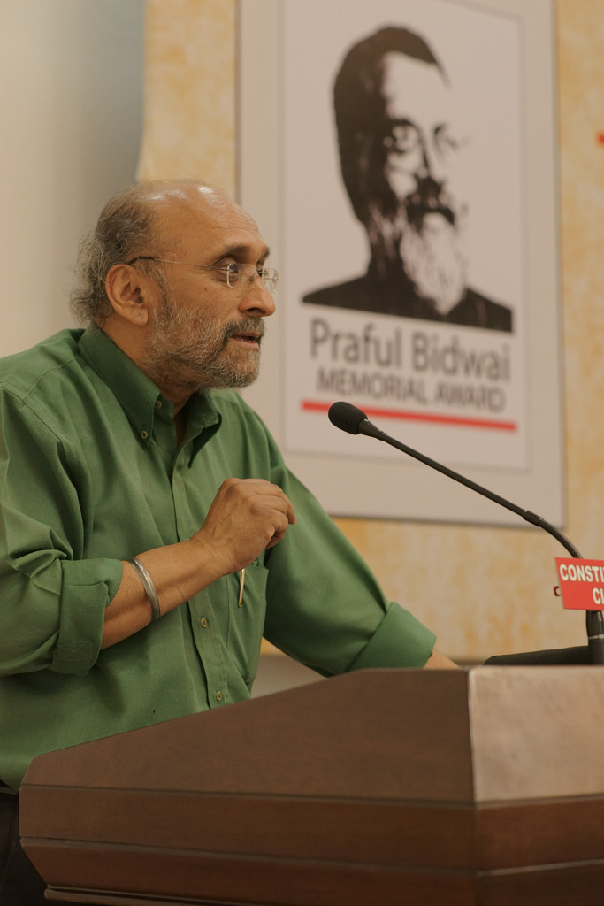 Speaking at the first Praful Bidwai Memorial Award function, Delhi